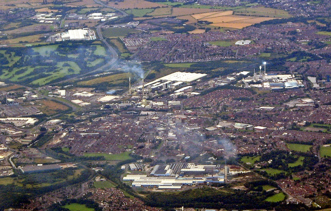 Aerial view of St Helens town centre viewed looking southwest